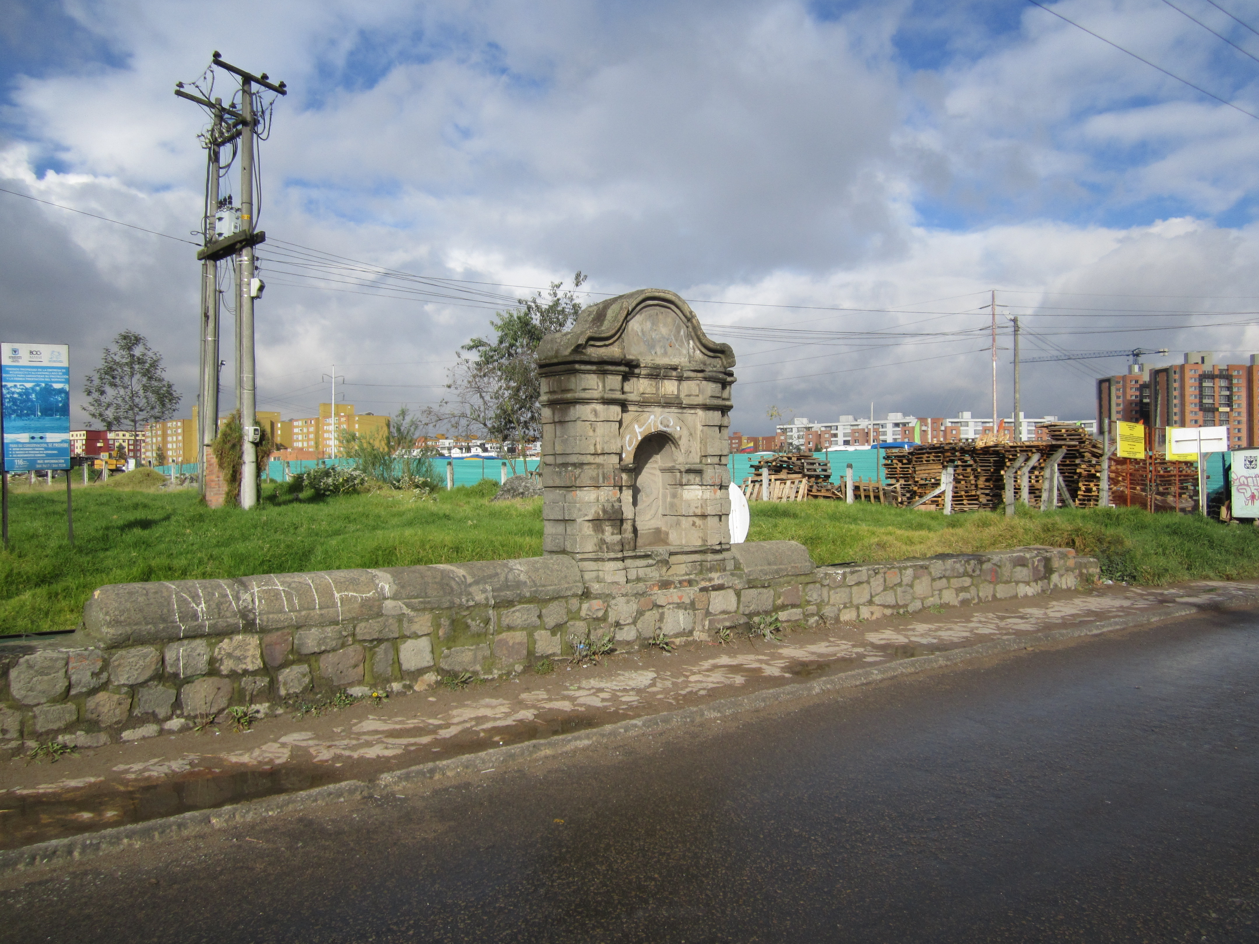 Bogotá